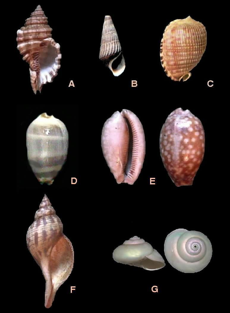 Plate with various Prosobranchia DIVERSIDAD DE PROSOBRANCHIA